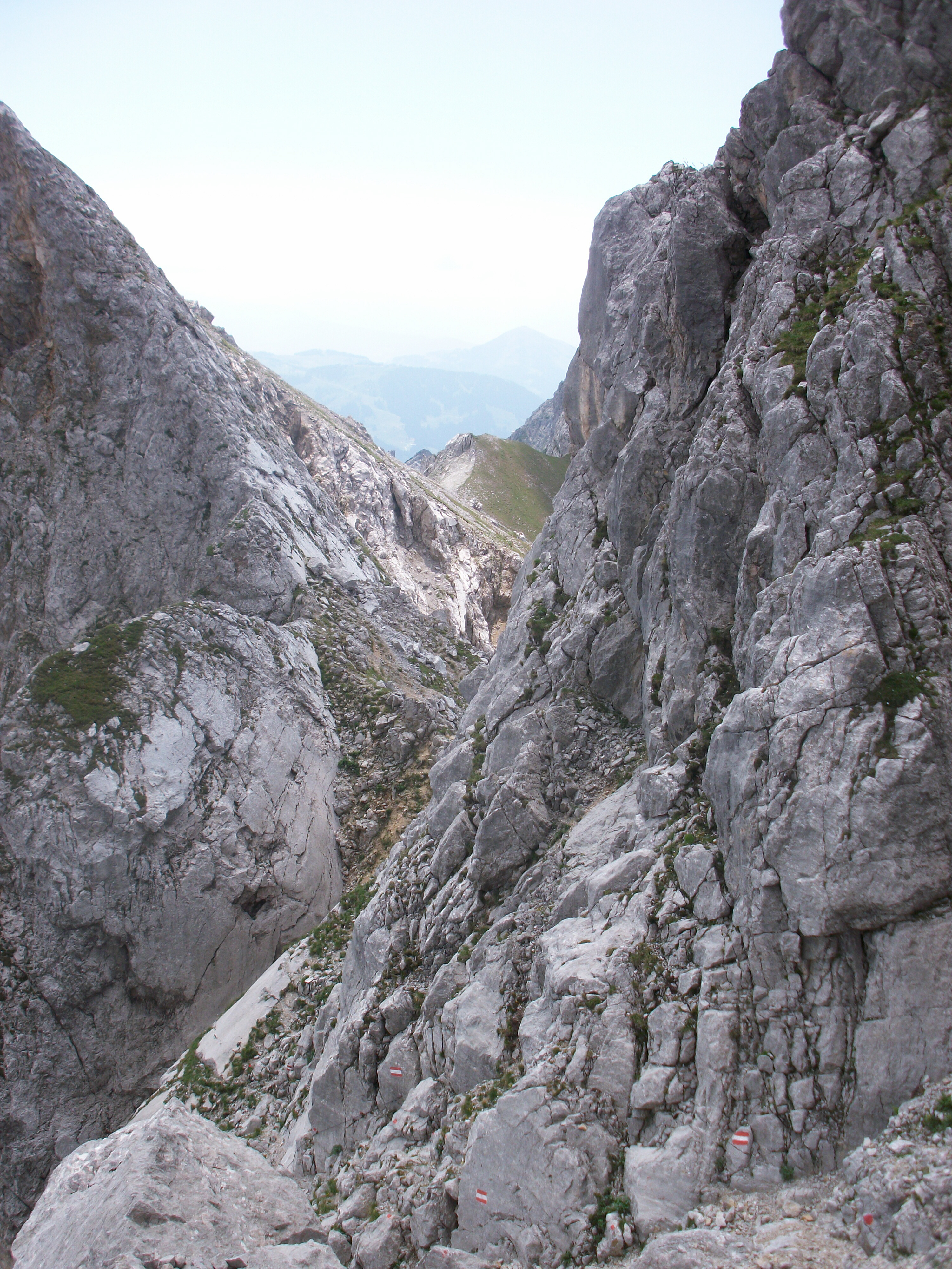 Rote-Rinn-Scharte, Hirschanger